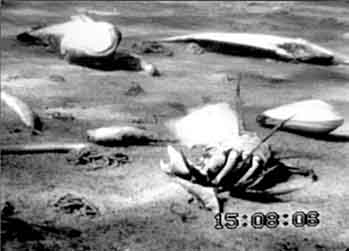 fishkill Baltic - image Uwe Kils GFDL